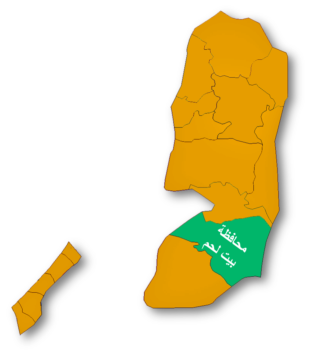 Map of the Palestinian Authorities showing the Governate of Bethlehem